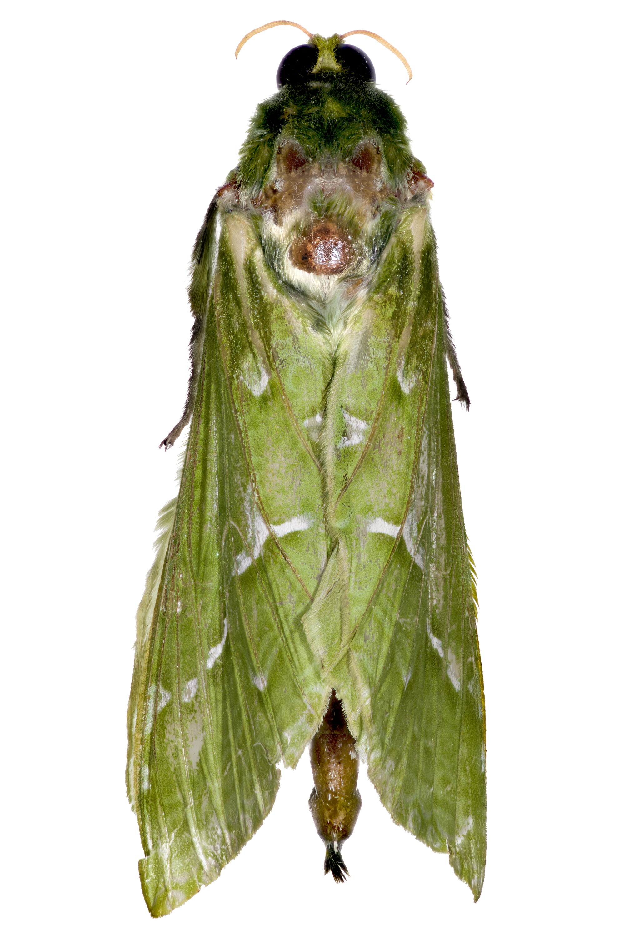 A male pūriri moth, Aenetus virescens, collected at Gordon Park, Whanganui, for the Whanganui Regional Museum